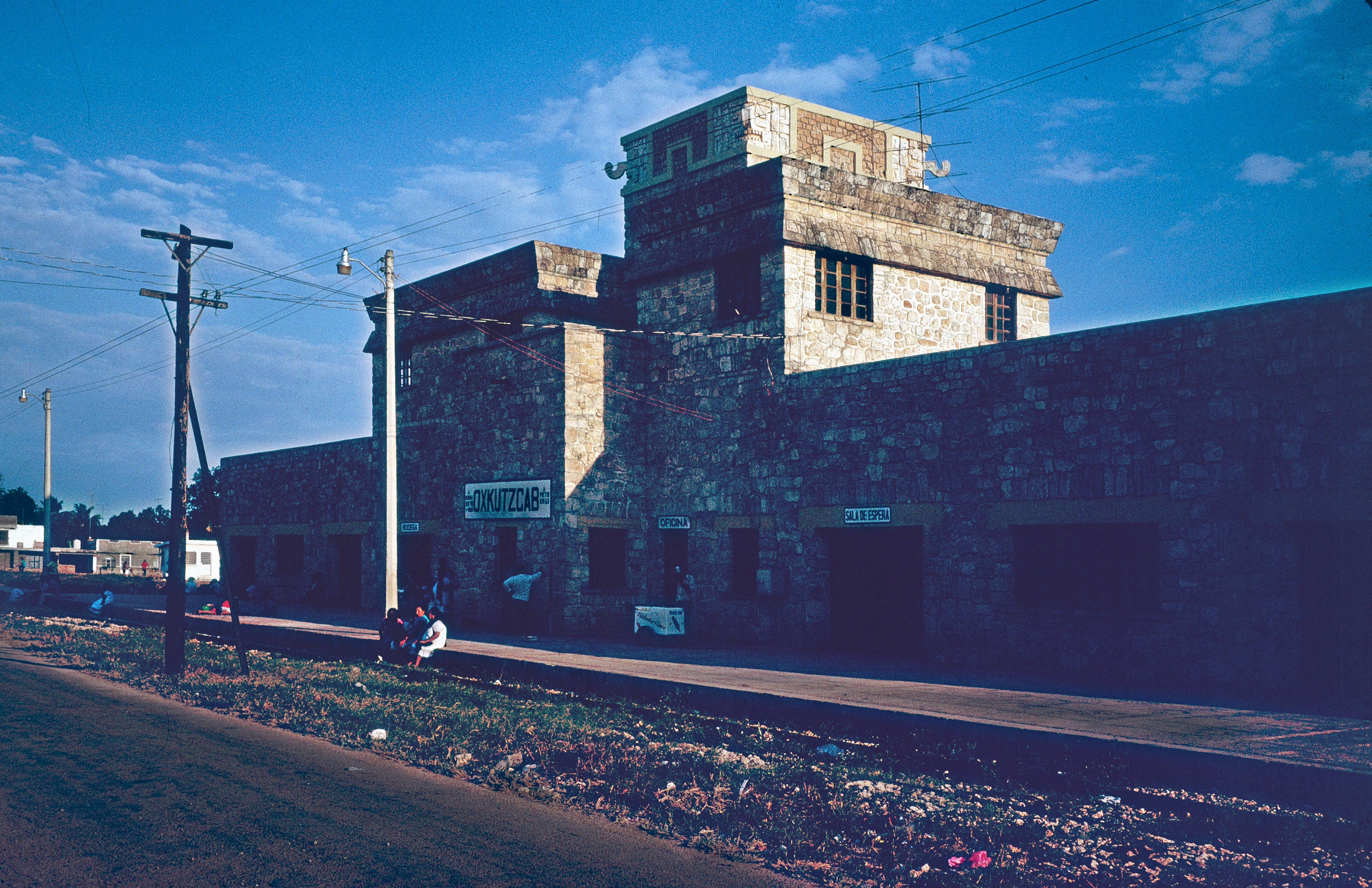 Oxkutzcab,Yucatab, Mexico: Train station